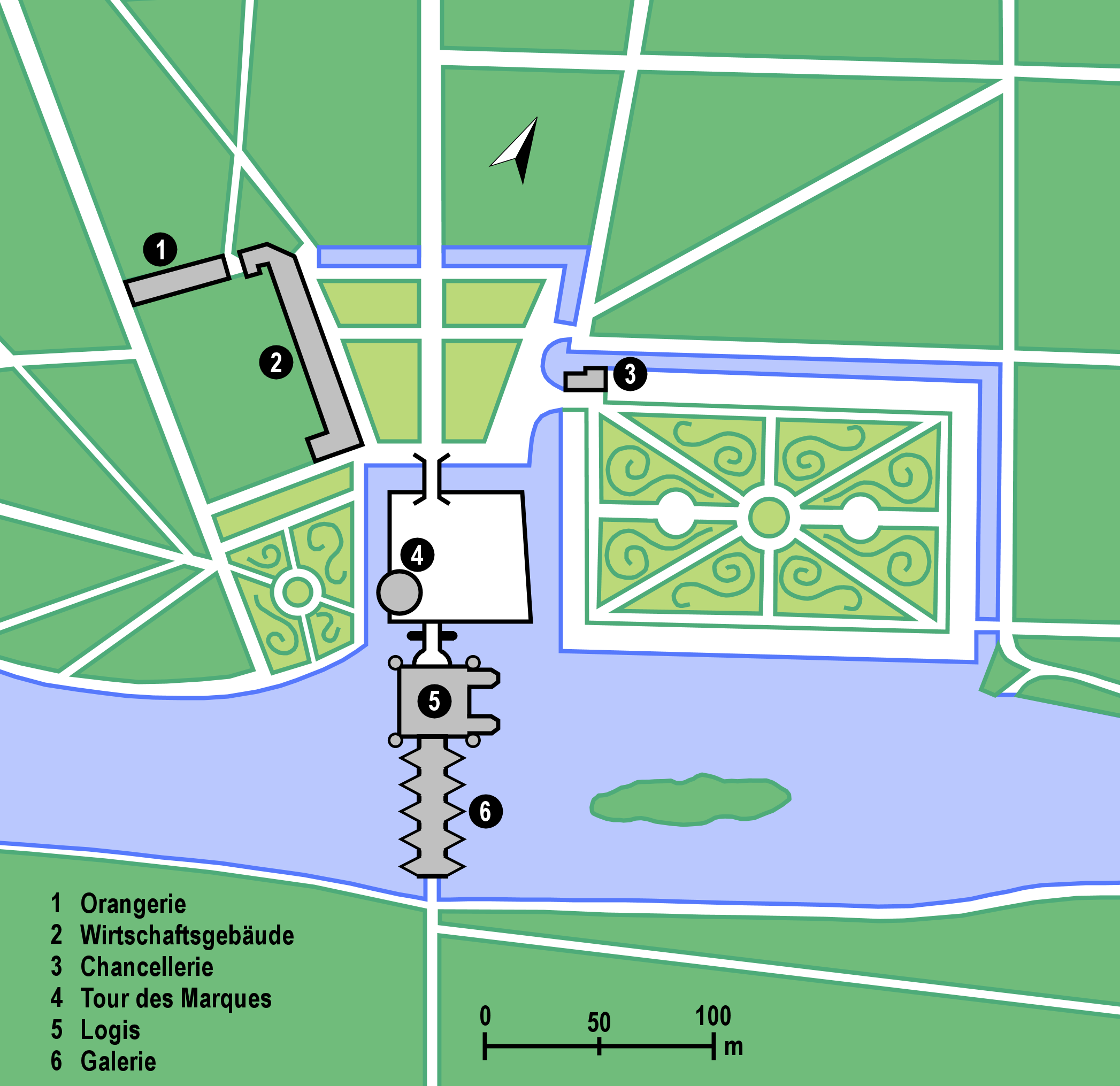 Area plan of the château de Chenonceau